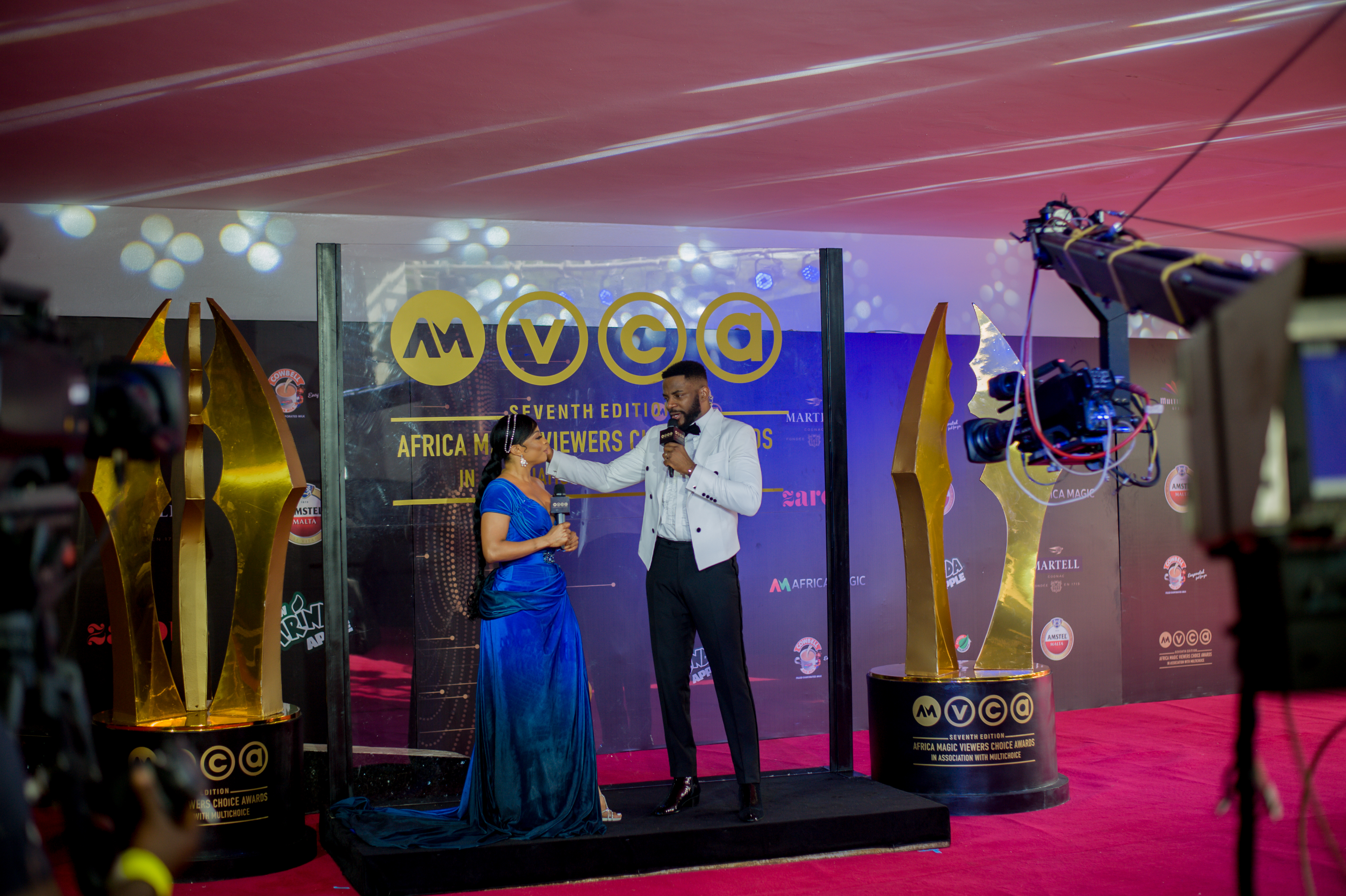 Pictures from AMVCA 2020